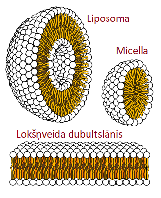 Lipid bilayer structures